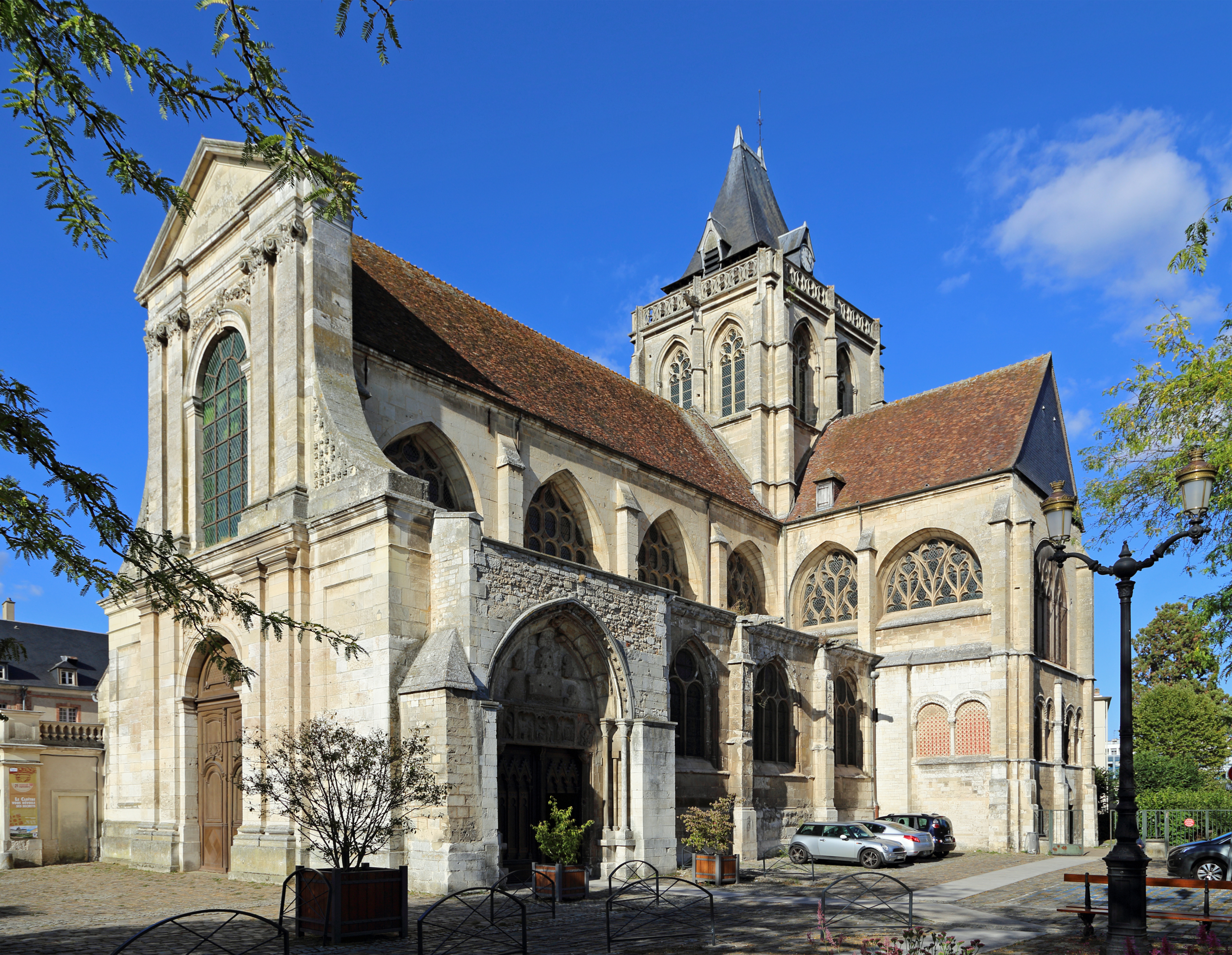 Évreux (Eure department, France): Saint Taurinus church .